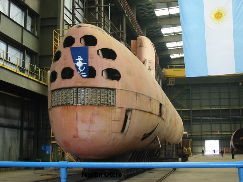 Submarine Type 209-1200 ARA San Luis (S-32) in Almirante Storni shipyard. On a background right the unfinished case of a submarine (cancelled ARA Santiago del Estero (S-44)) of the TR-1700 project is visible